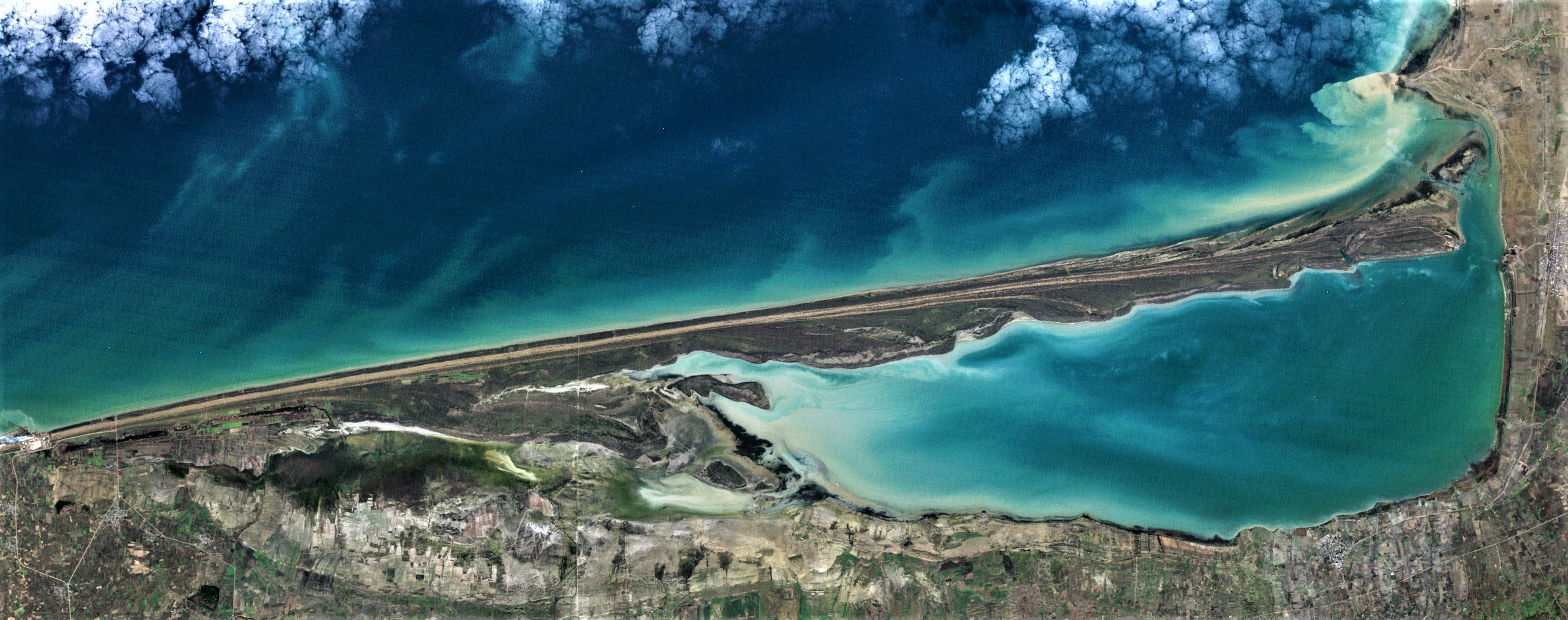 Gorgan Bay separated from open waters of the Caspian Sea with the Miankaleh peninsula, it's easternmost tip includes former Ashuradeh island; LandSat-5 satellite image 30-DEC-1984 ID:LT05_L1TP_163034_19841230_20170219_01_T1